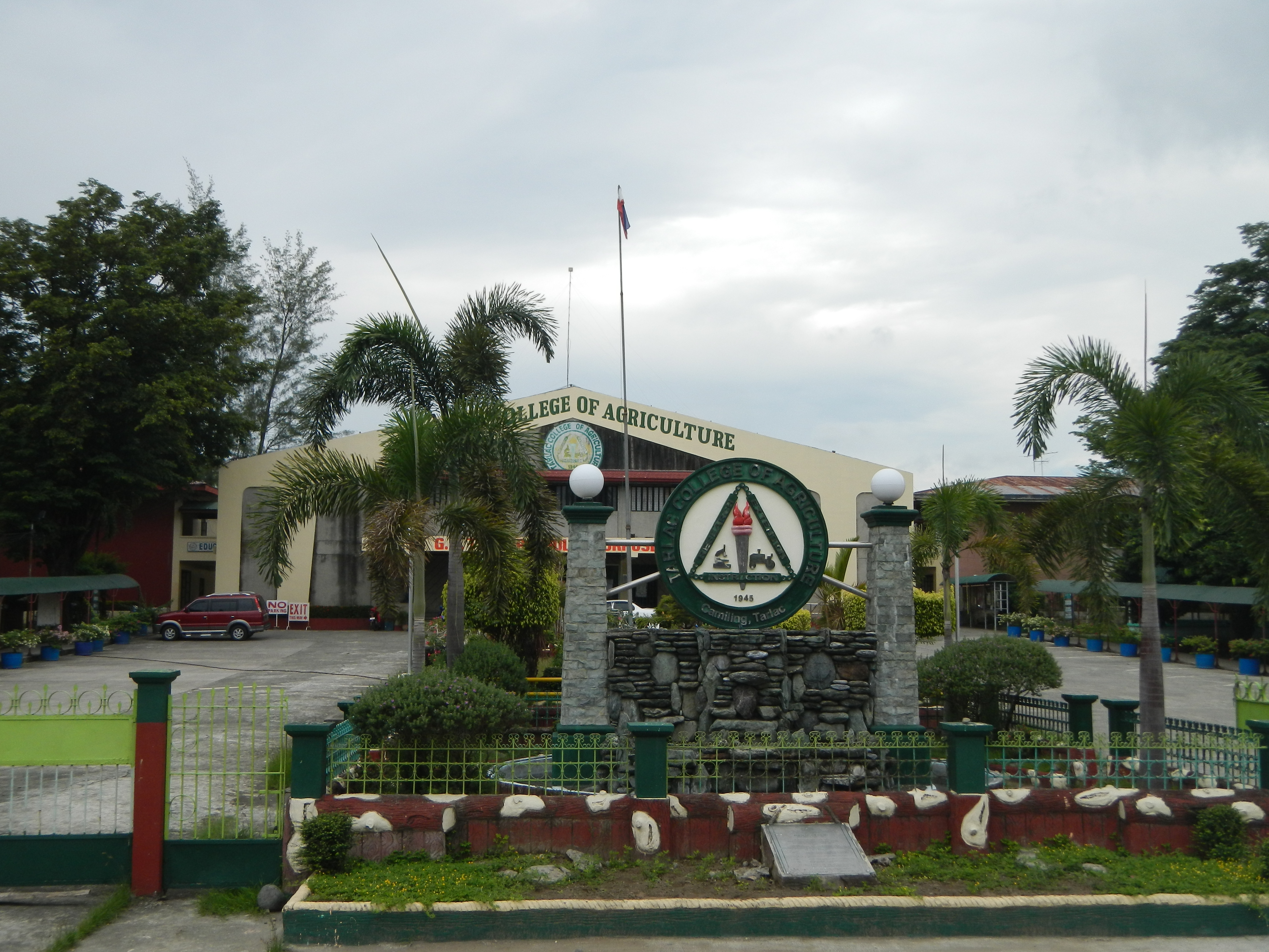 Tarlac College of Agriculture[1]: Founded since 1945, the second largest college in the province of Tarlac ---------[N.B. Photography of Camiling, Tarlac: cloudy and 20% sunny weather using my Nikon AW 100 waterproof shockproof camera. From Bulacan about 9:21 a.m. I took photo of the crossing, Lion's Club welcome Monument and melting pot of Tarlac City beside Siesta bus stop at 12:25 pm; and photographed Camiling, Tarlac at 1:15 p.m. and the Town hall and proper at 1:27 p.m., including the famous heritage and landmark Camiling Church and Town hall and the Old burned Church, the monuments, the market, Tarlac Agriculutral School, inter alia. - I finished photography at 3:56 p.m., and arrived at Bulacan at 10 pm after 6 hours of travel by bus, and started uploading via slow internet at 11:00 pm - I hereby certify that these photos are exclusive for Commons and Wikipedia never uploaded in any Internet or any site, and for the public domain without any condition.]